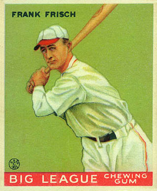 1933 Goudey baseball card of Frank "Frankie" Frisch of the St. Louis Cardinals #49.